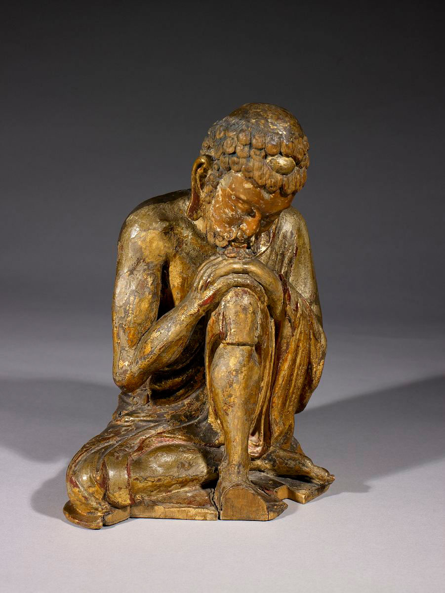 Carving of Sakyamuni (Gautama Buddha) from the Yuan dynasty of China.